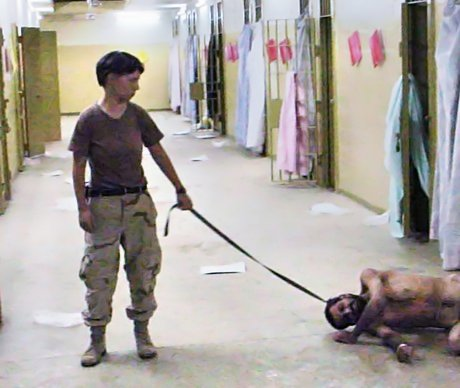 One of the many iconic photographs of the Abu Ghraib prison torture scandal: Lynndie England forcing an inmate, known to the guards as "Gus" to crawl and bark like a dog on a leash. England is holding a leash attached to a prisoner collapsed on the floor, U.S. Army / Criminal Investigation Command (CID). Seized by the U.S. Government.